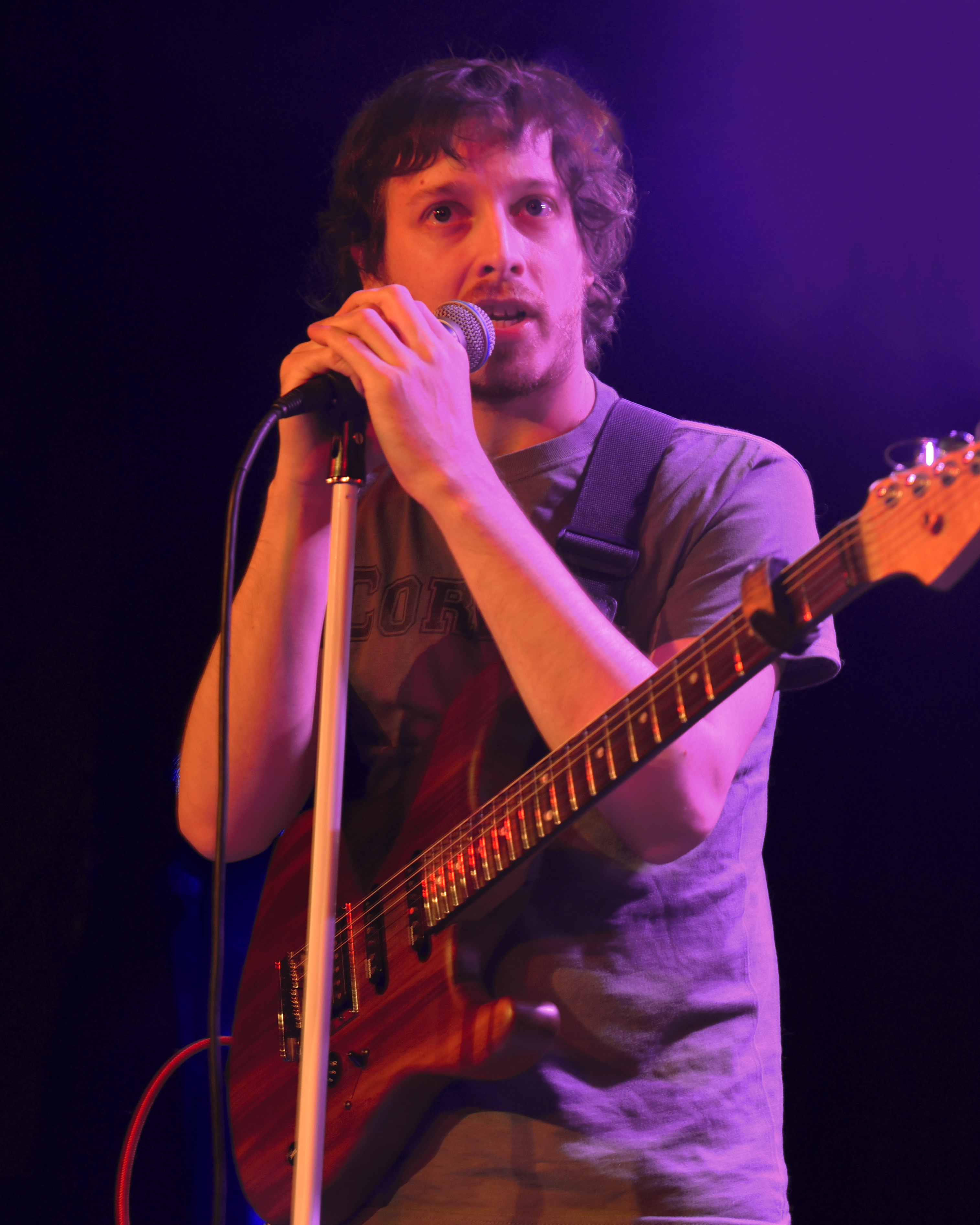 Daniele Gottardo performs at the Roxy Theater in July 2019